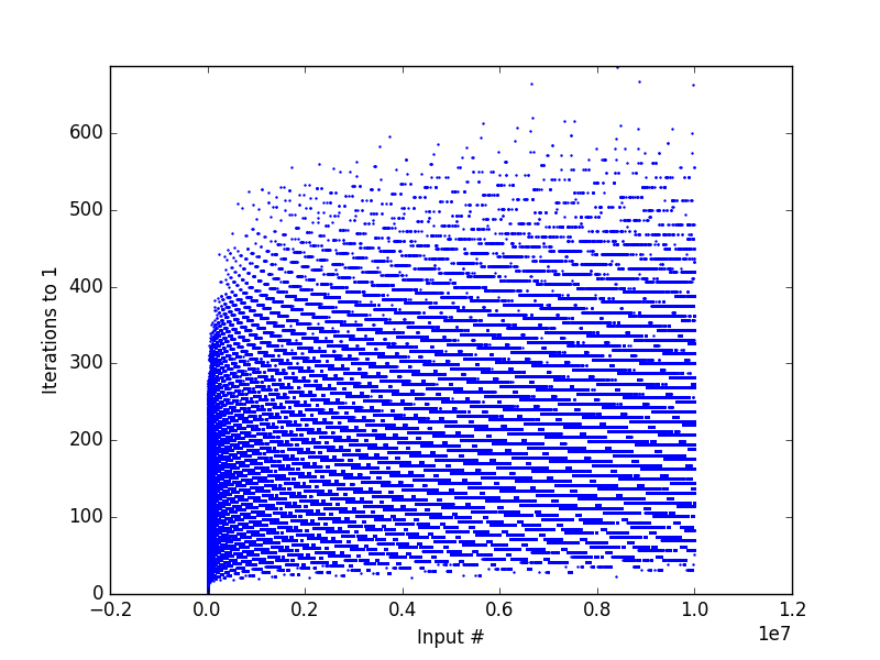 The Collatz conjecture for all inputs up to 10 million